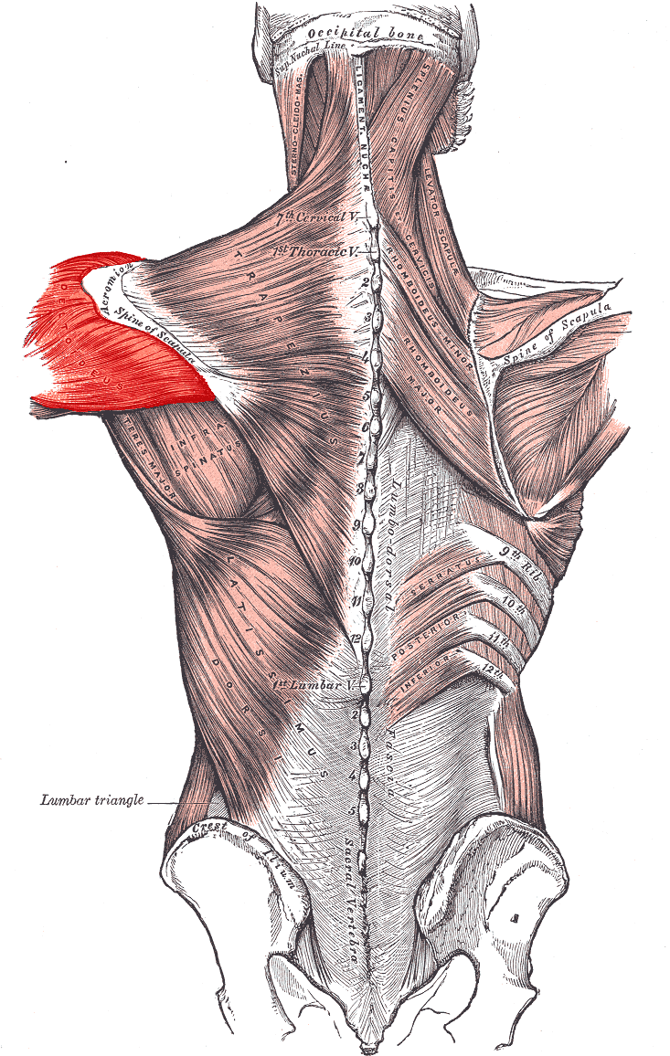 Muscles connecting the upper extremity to the vertebral column.